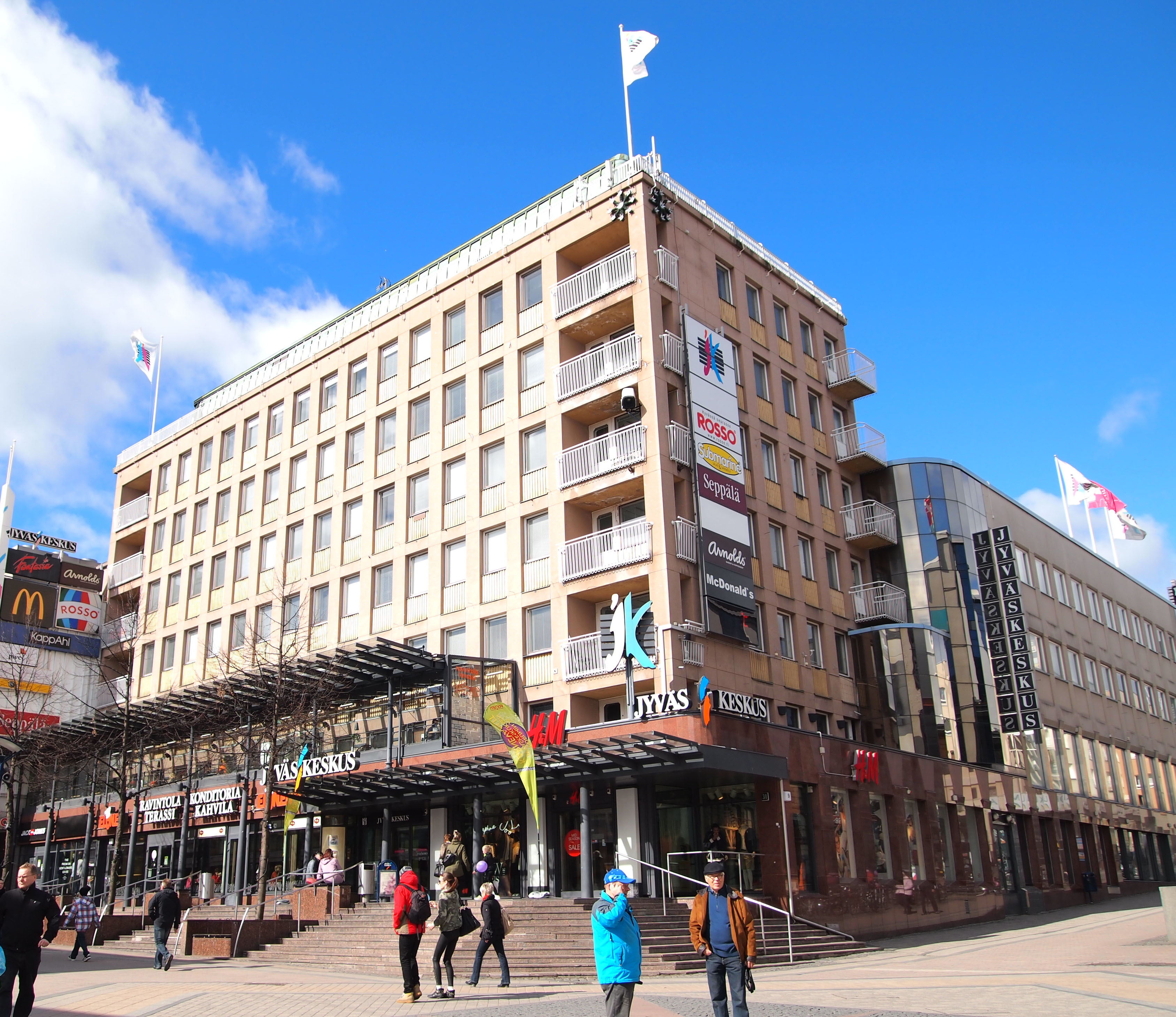 Shopping centrum Jyväskeskus in Jyväskylä.